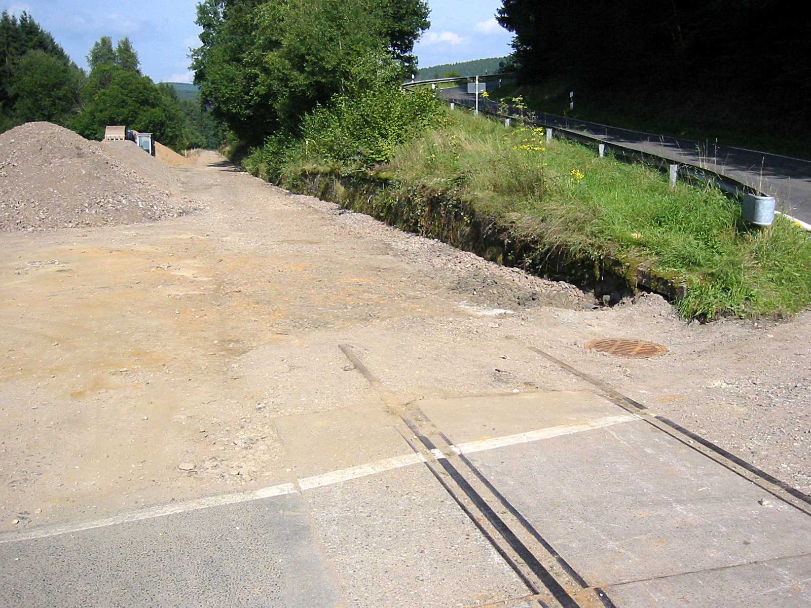 Former railway station Lampaden, on the railway line Hermeskeil-Trier, Germany